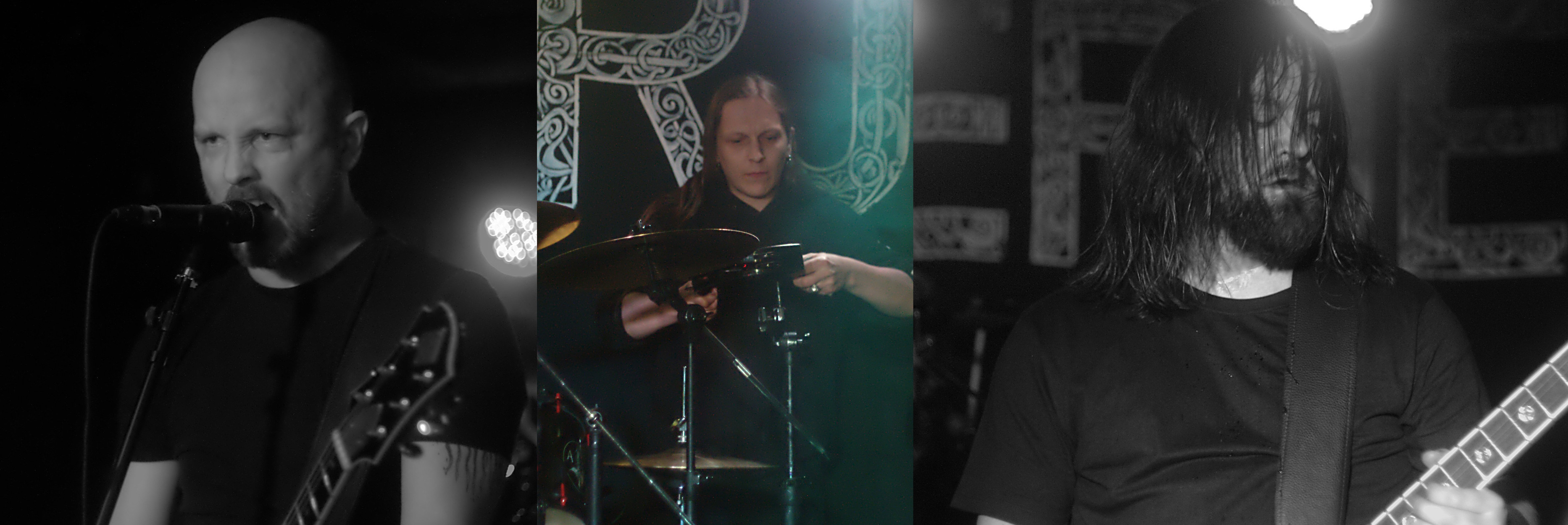 Einherjer performing in Toronto.